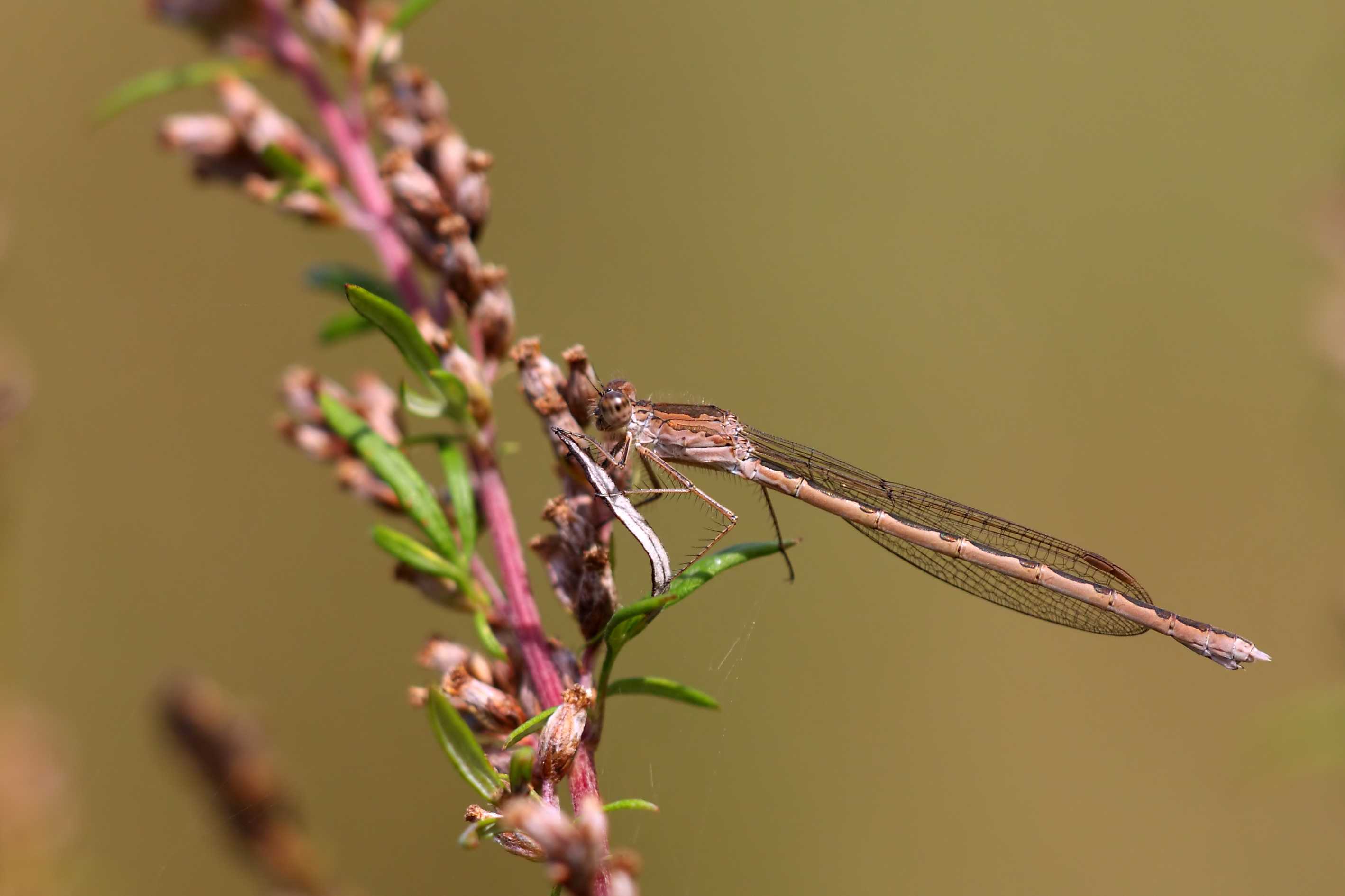 Siberian Winter Damsel - female (Sympecma paedisca) from Germany / Brandenburg